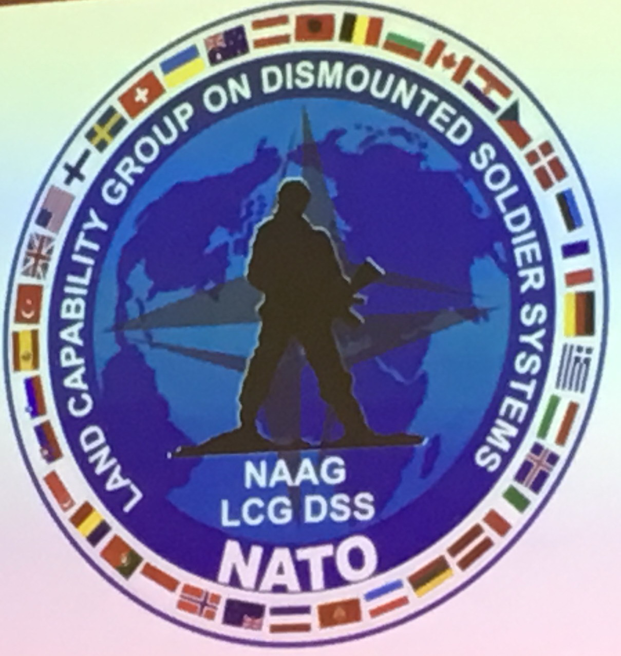 LCG DSS Logo